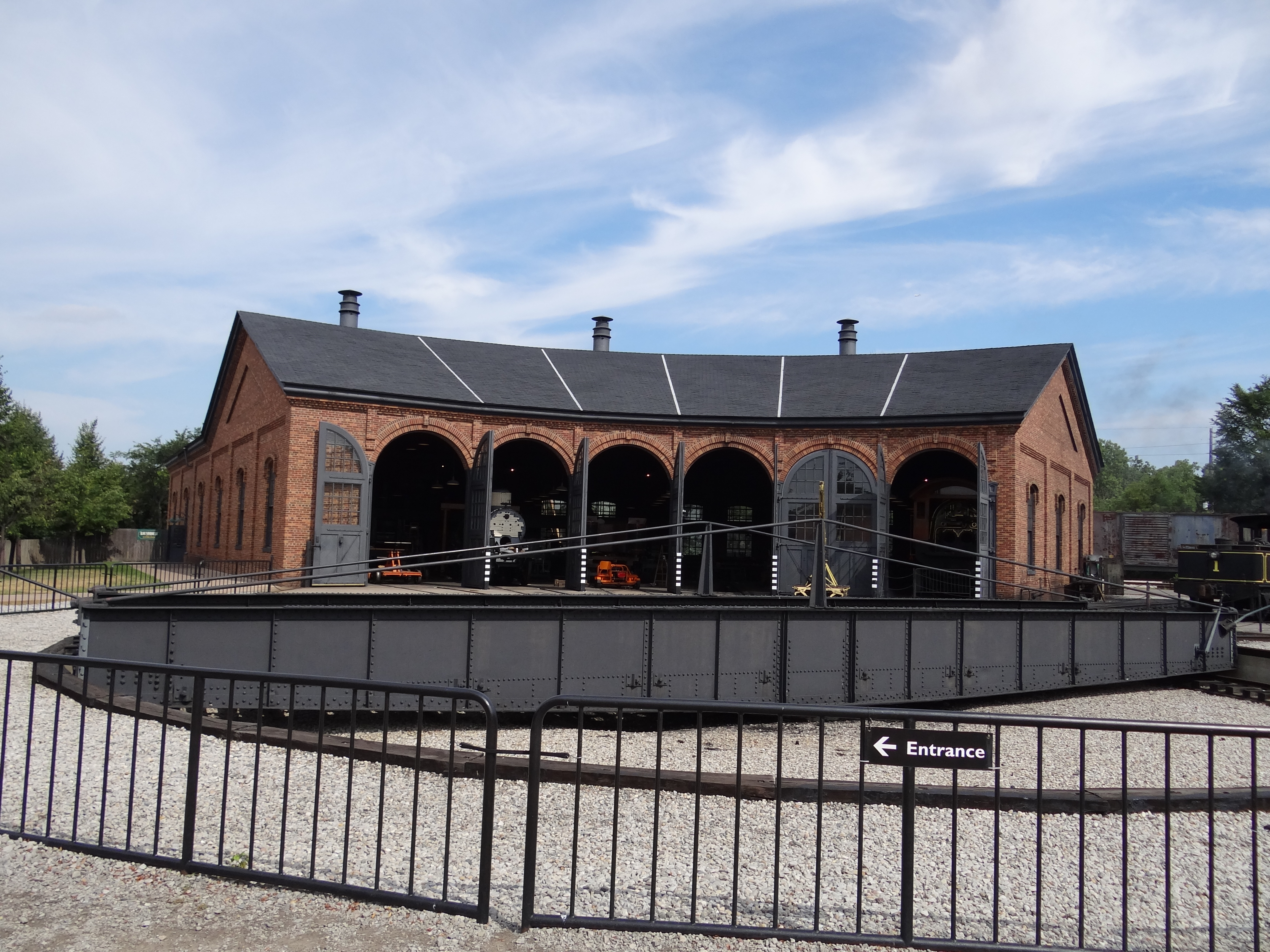 Greenfield Village - The Henry Ford - Dearborn MI